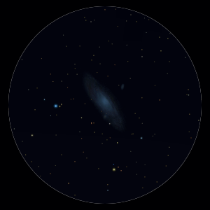 M31